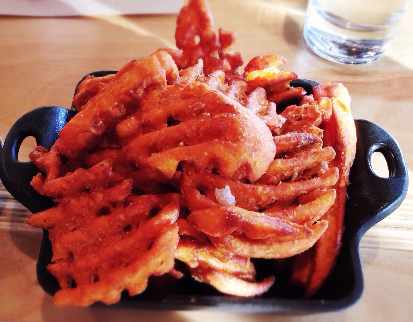 Sweet potato waffle fries